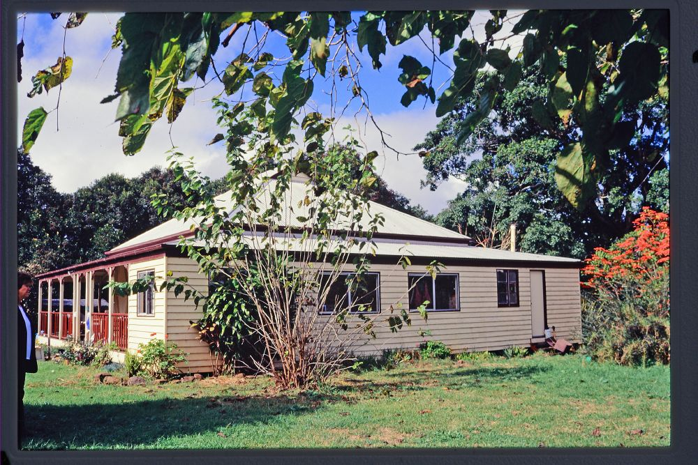 Looking toward the south-west corner of Fairview in 2003